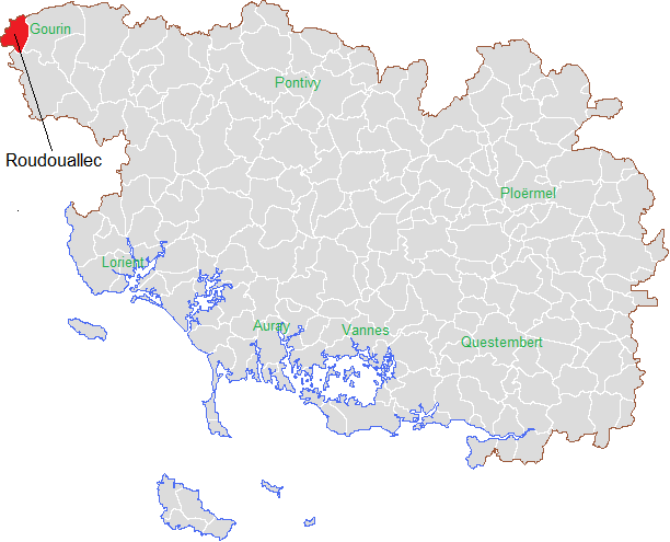 placement Roudouallec in departement Morbihan